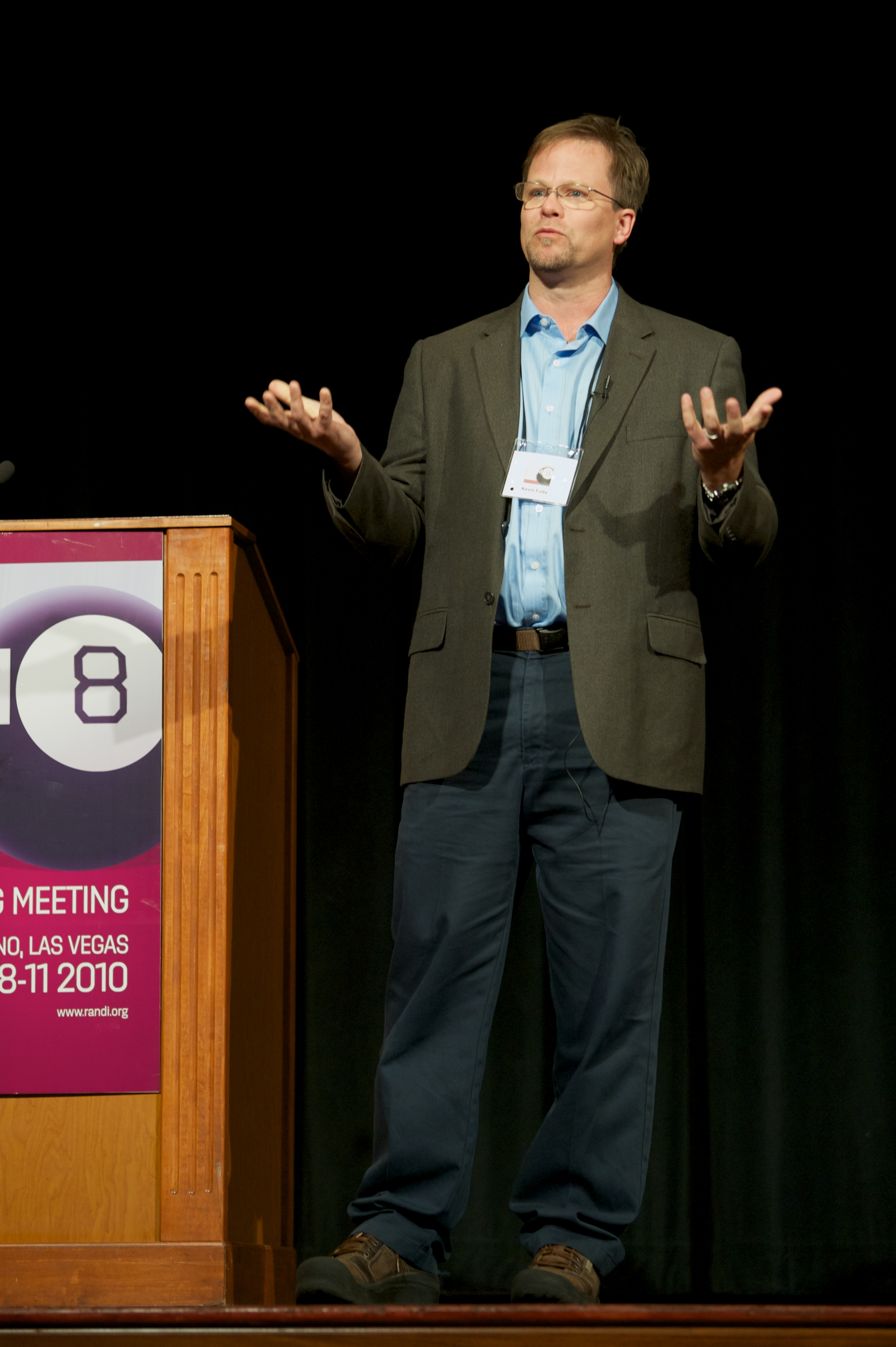 Kevin Folta, American biologist, professor and chairman of the horticultural sciences department at the University of Florida, at The Amazing Meeting 8 (TAM8) in Las Vegas.